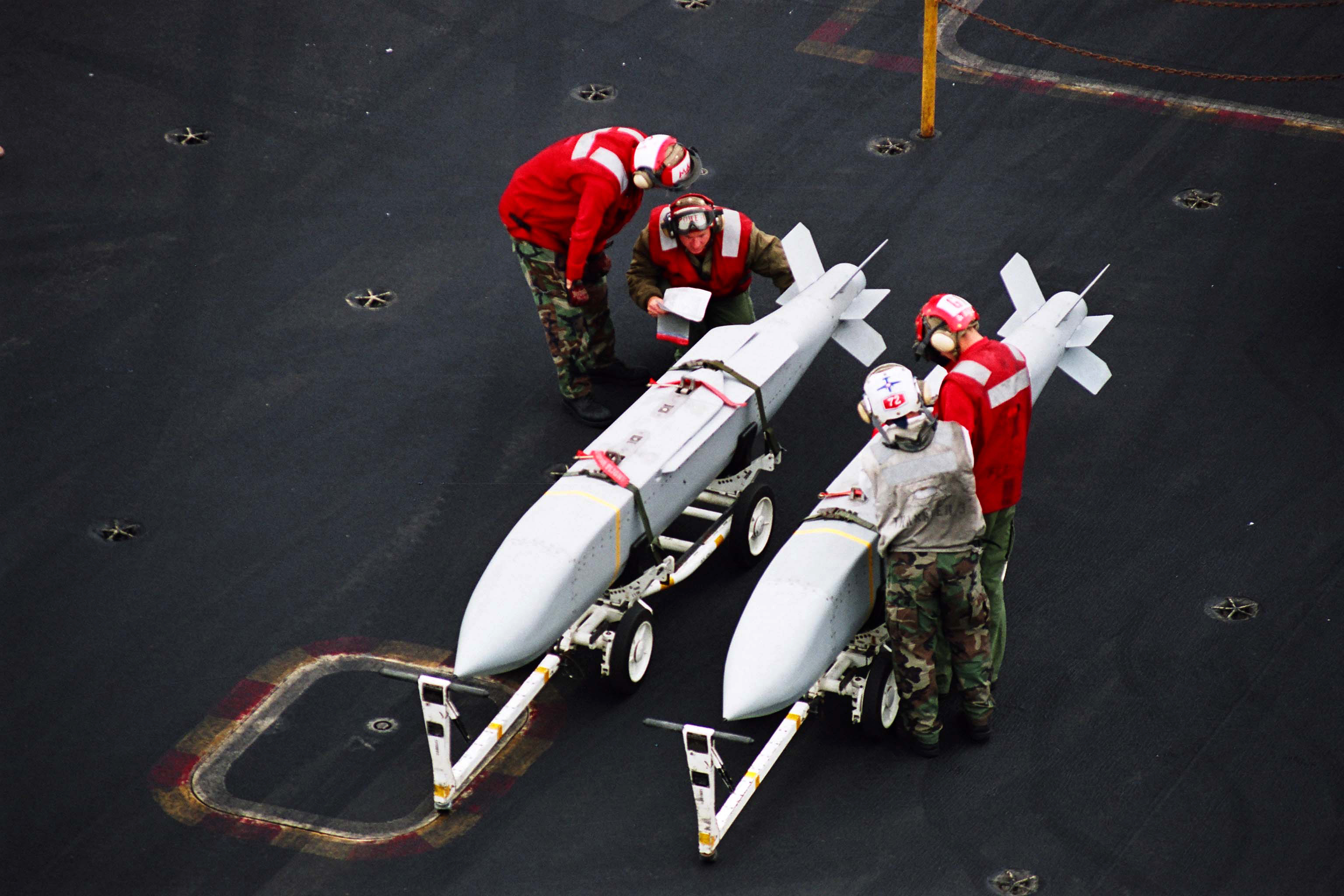 Arabian Gulf (Mar. 13, 2003) -- Aviation Ordnancemen assigned to G-1 Division inspect Joint Stand Off Weapons (JSOW) aboard USS Abraham Lincoln (CVN 72) before transferring them to waiting aircraft. Lincoln and her embarked Carrier Air Wing Fourteen (CVW-14) are conducting combat operations in support of Operation Southern Watch. U.S. Navy photo by Photographer's Mate 3rd Class Michael S. Kelly. (RELEASED)